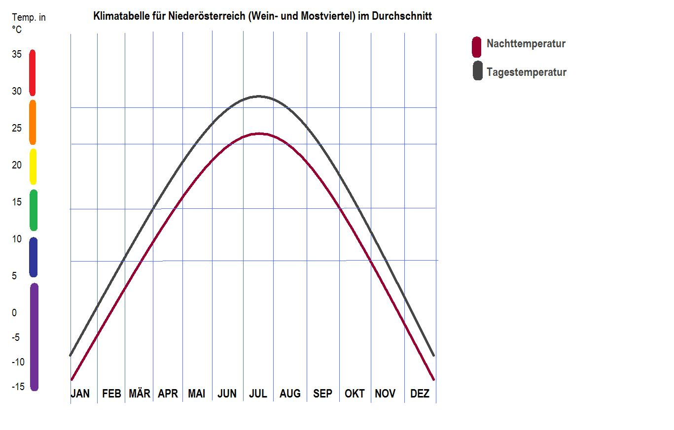 Climate table of Lower Austria (two boroughs)